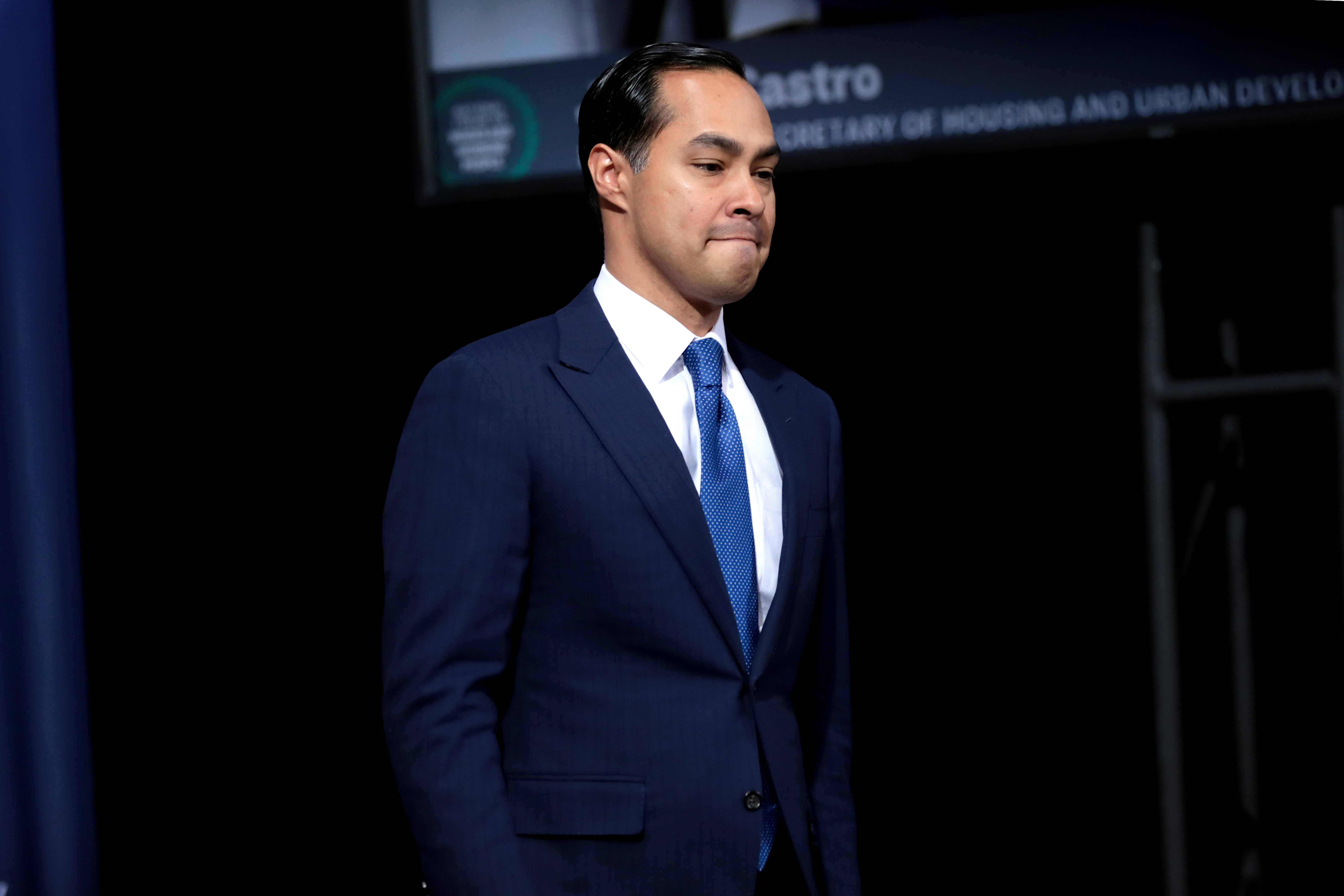 Former Secretary of Housing and Urban and Development Julian Castro speaking with attendees at the 2019 National Forum on Wages and Working People hosted by the Center for the American Progress Action Fund and the SEIU at the Enclave in Las Vegas, Nevada.